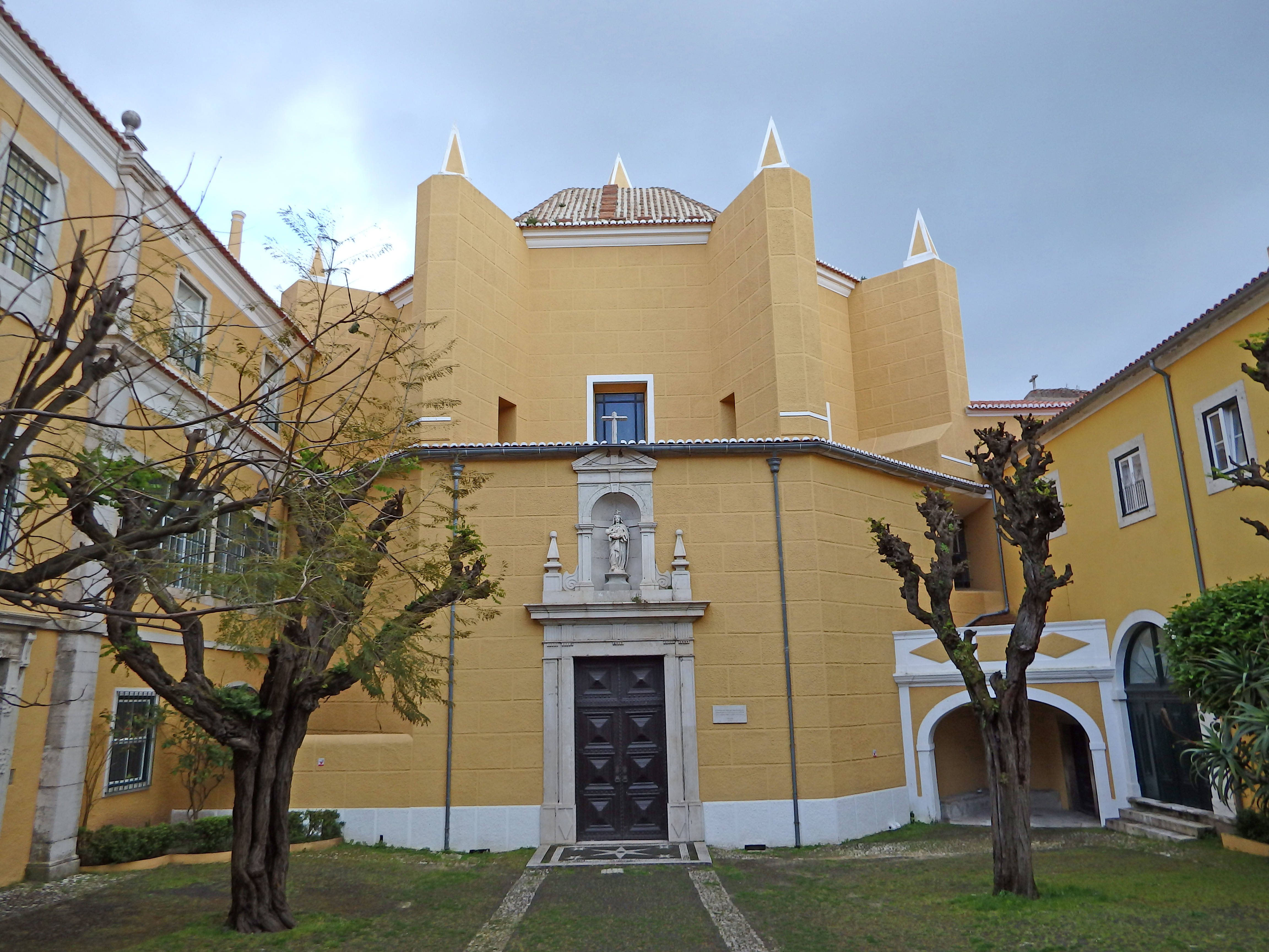 Lisbon